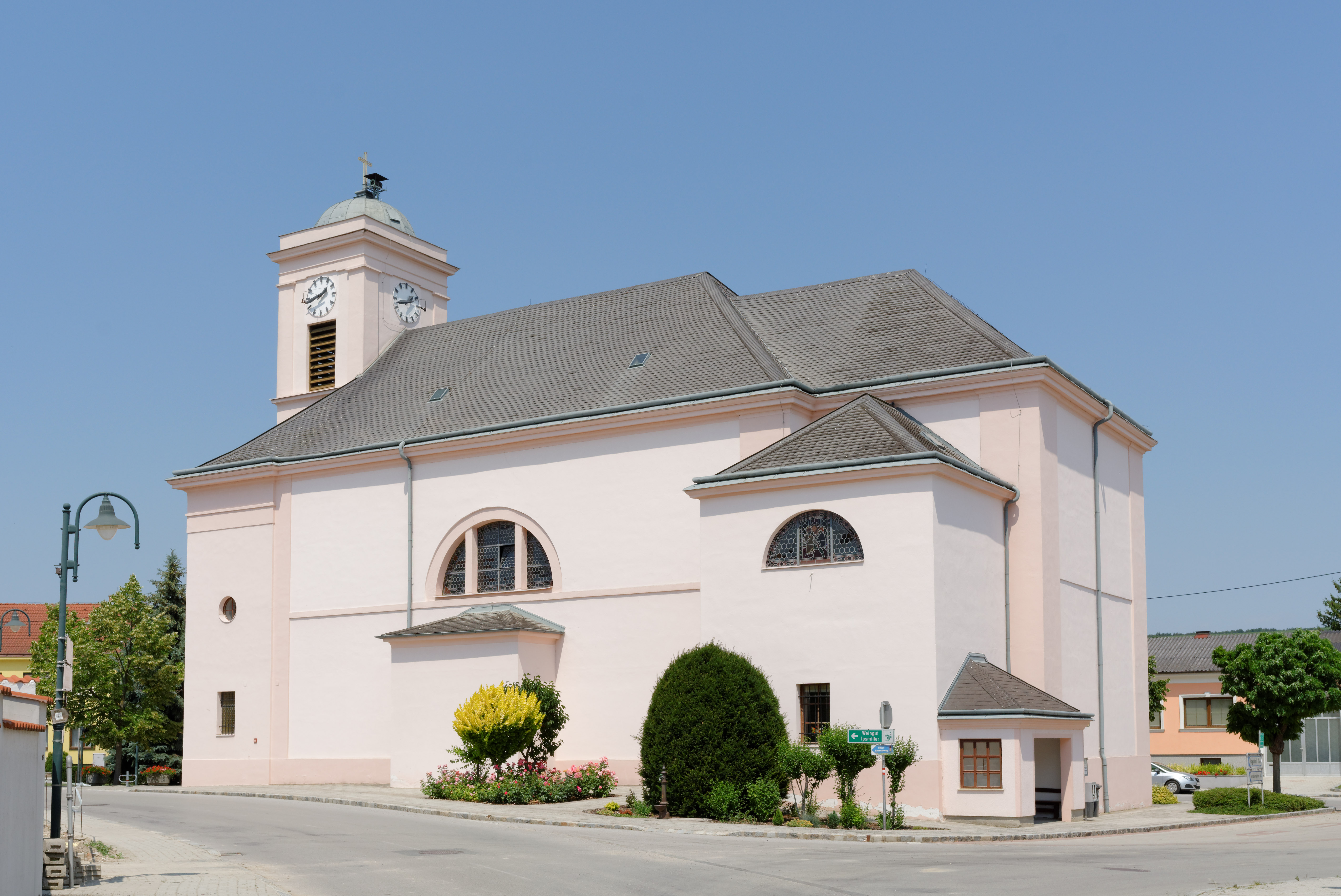 Catholic parish church at Schrattenberg, Lower Austria, Austria